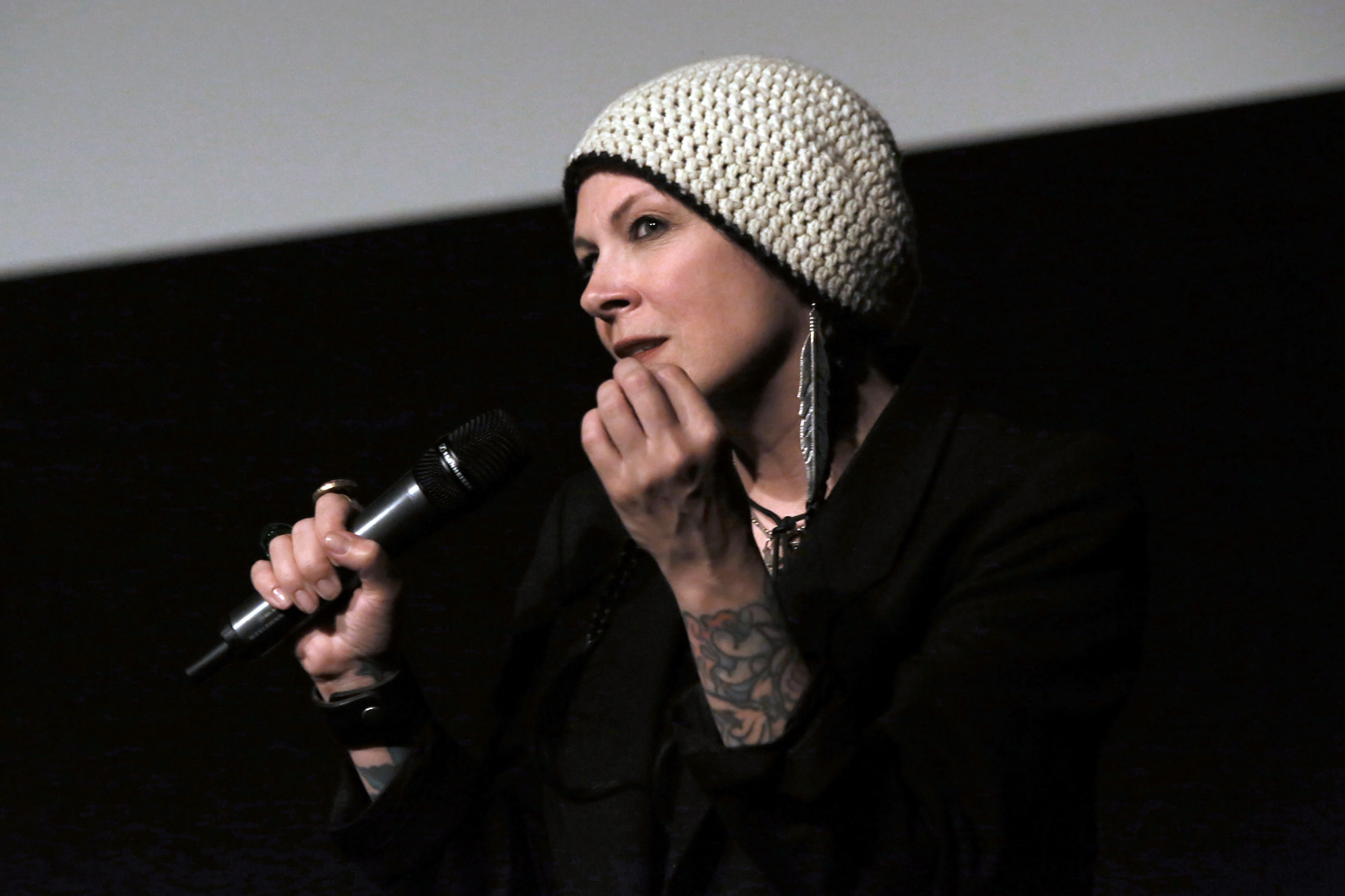 Jennifer Reeder presenting A Million Miles Away at the film festival Vienna Independent Shorts 2014 at Stadtkino at Vienna Künstlerhaus (Vienna, Austria).